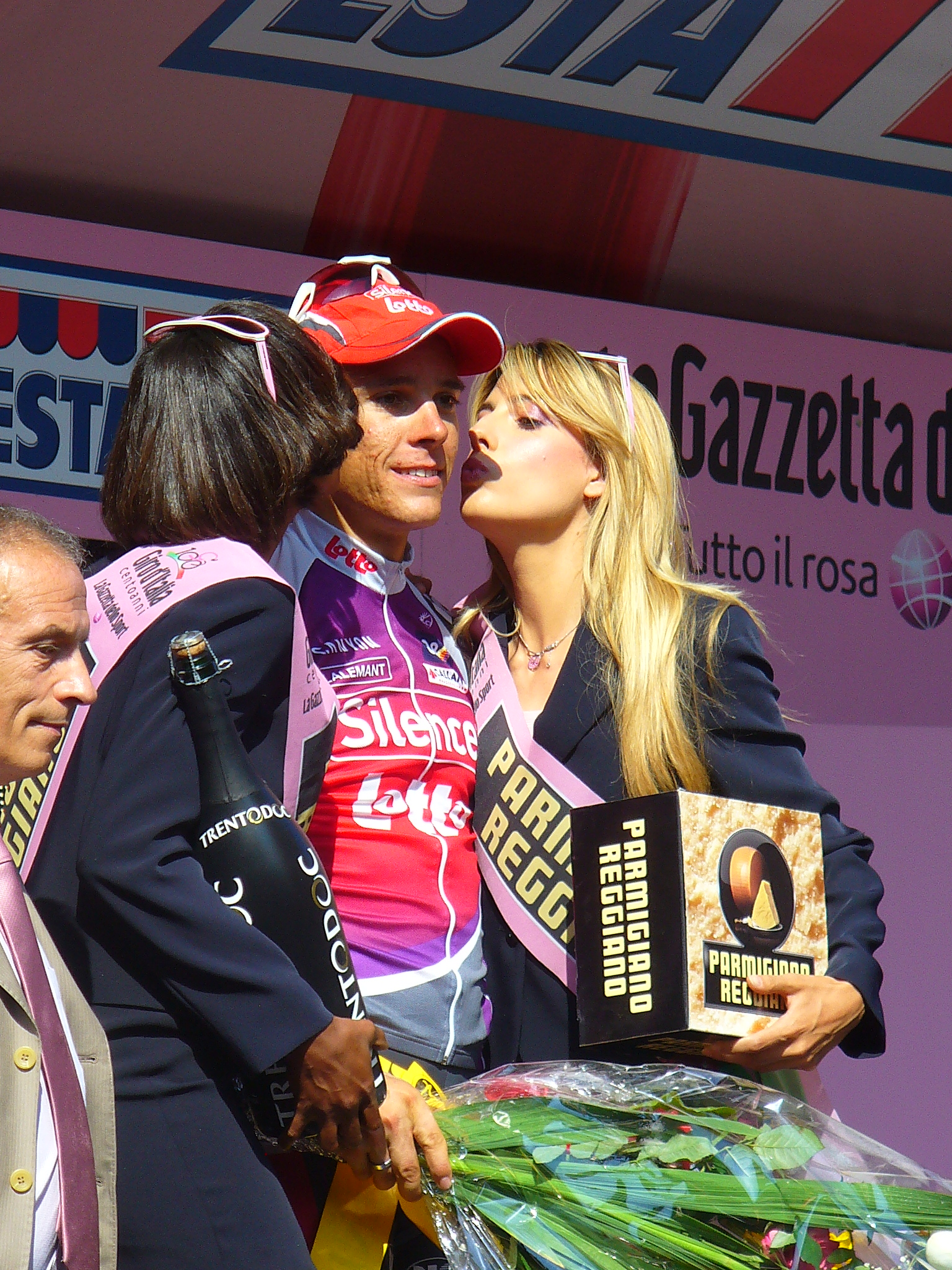 Philippe Gilbert at the of victorious stage Naples-Anagni at the Giro 2009